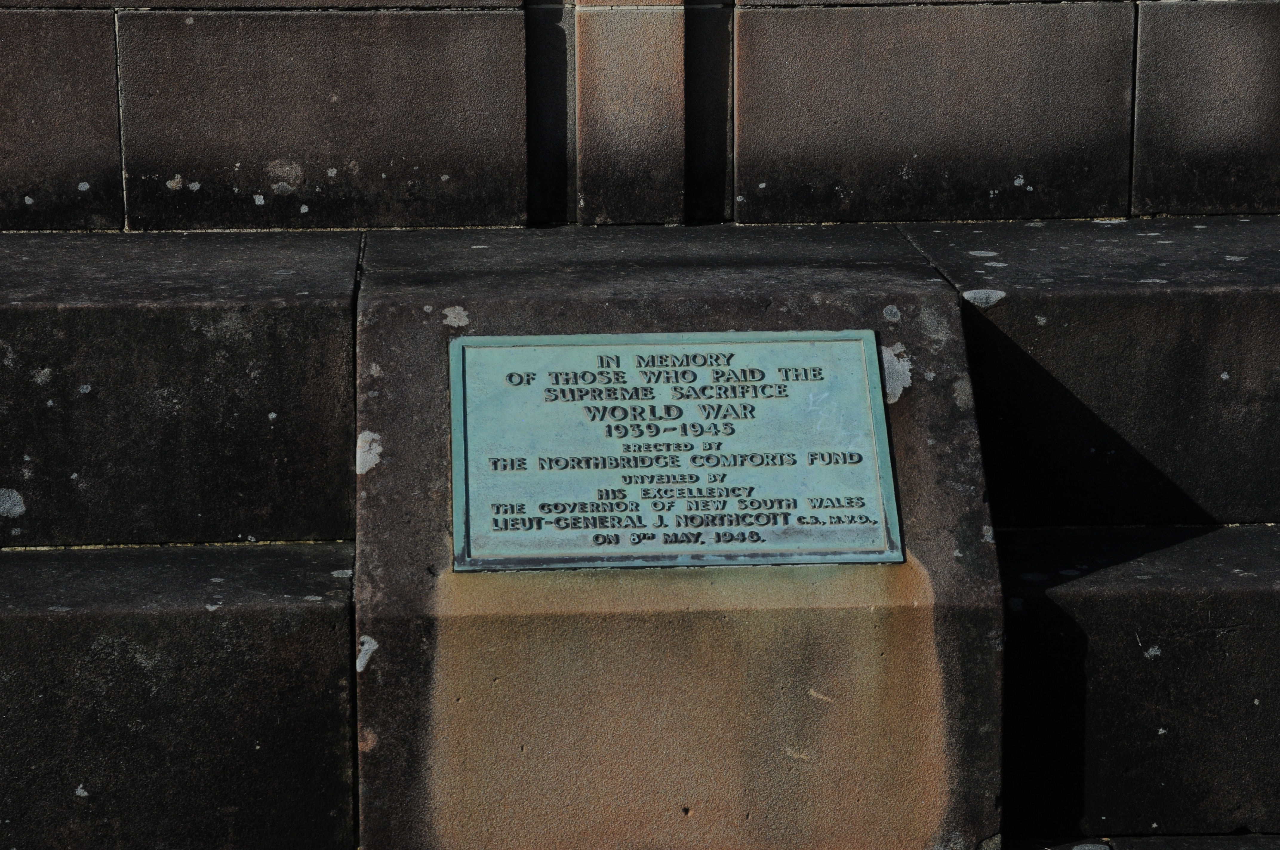 Northbridge Clock Tower